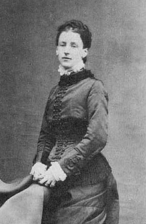 Albertha duchess of Marlboorugh